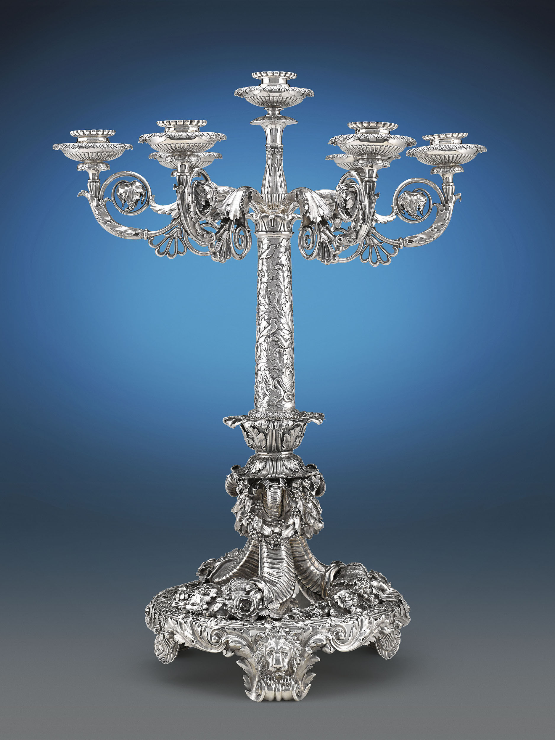 Silver Centerpiece by Paul Storr. Hallmarked Paul Storr, London, 1815